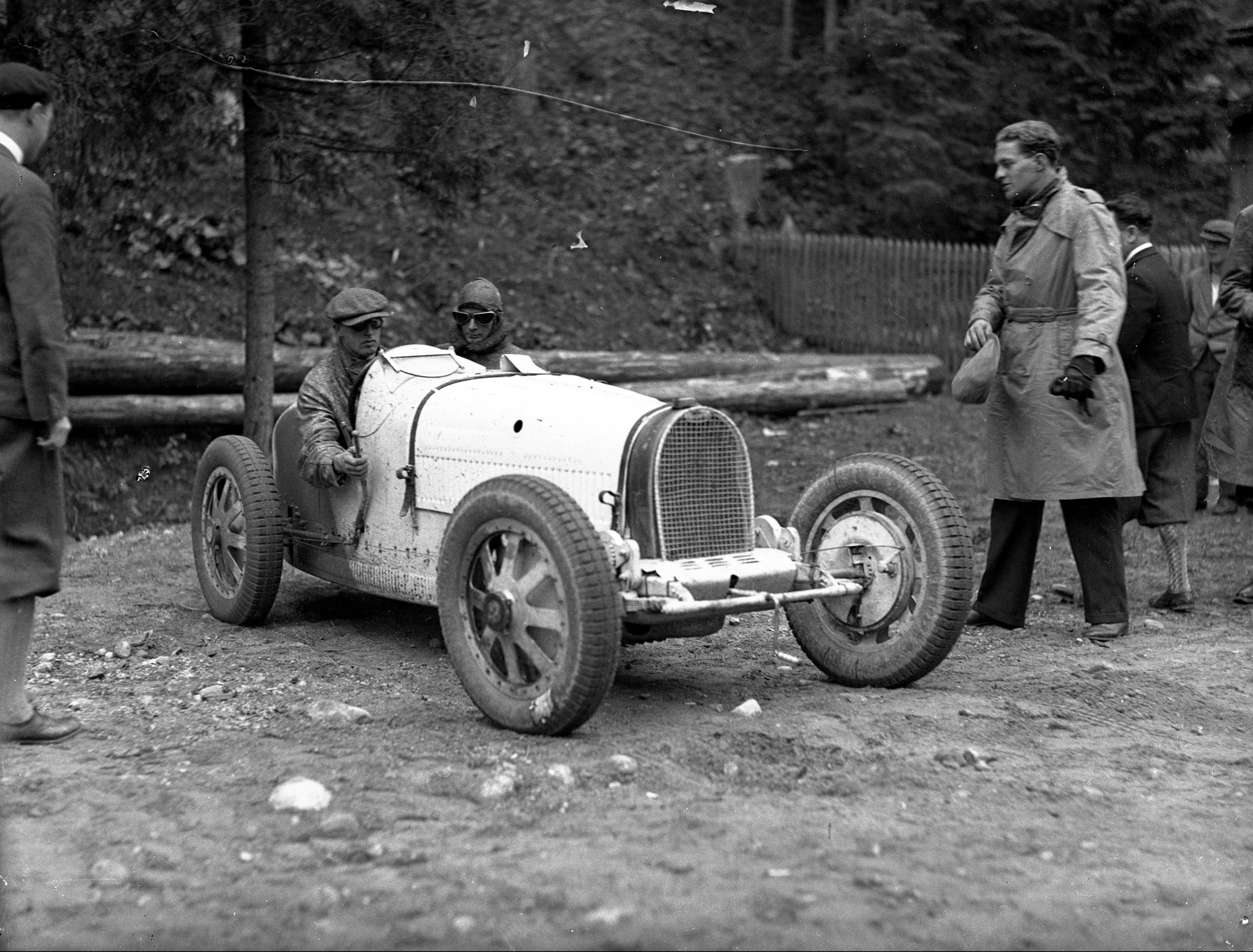 2nd International Tatra Rally, Poland, August 1929. Stanisław Schwarzstein in Bugatti.